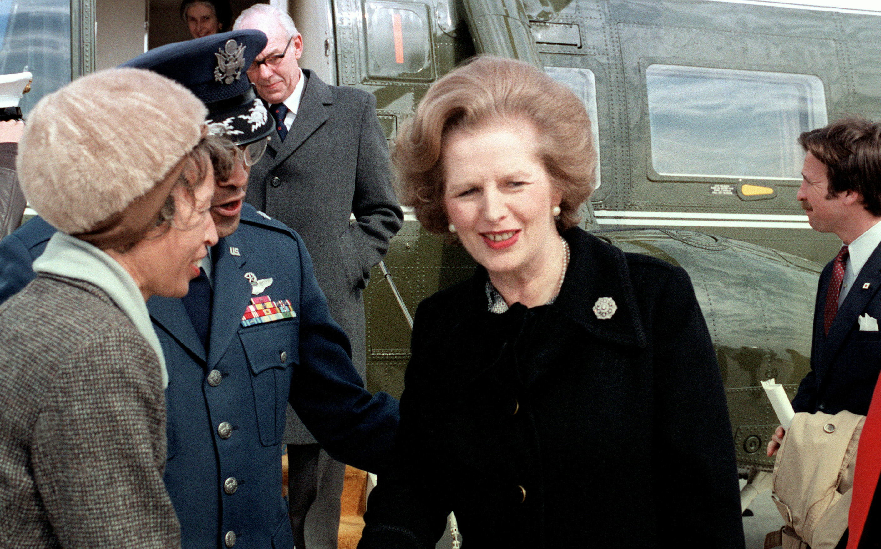 Margaret Thatcher bids farewell after a visit to the United States.